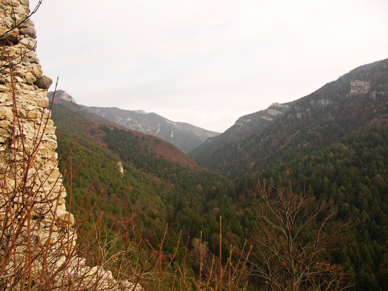 The bottom part of the Gedrská dolina in the Greater Fatra (Slovakia) from the Blatnica castle ruin